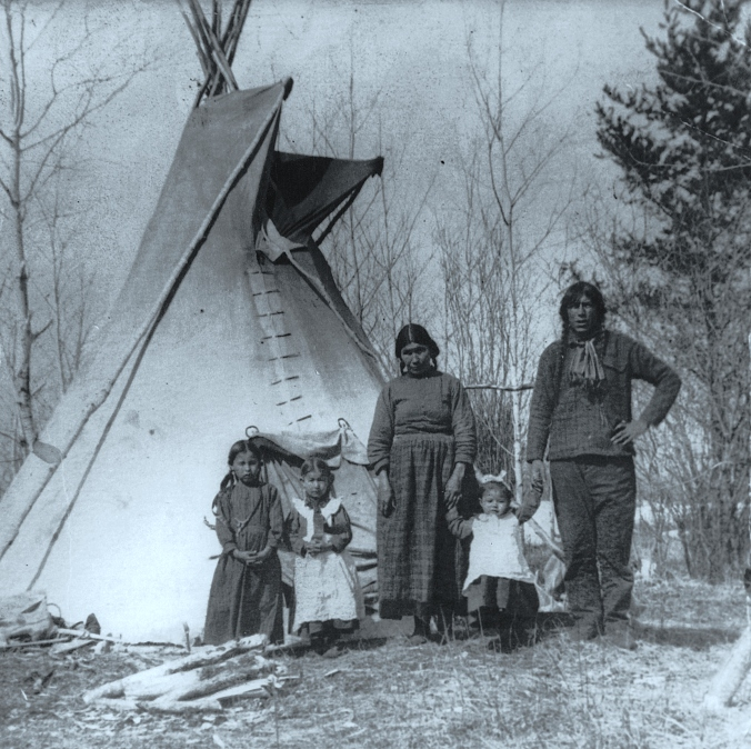 Photograph, Aboriginal family near Prince Albert, SK, 1919, Walter Cross, Silver salts, watercolour on paper - Gelatin silver process - 13 x 14 cm